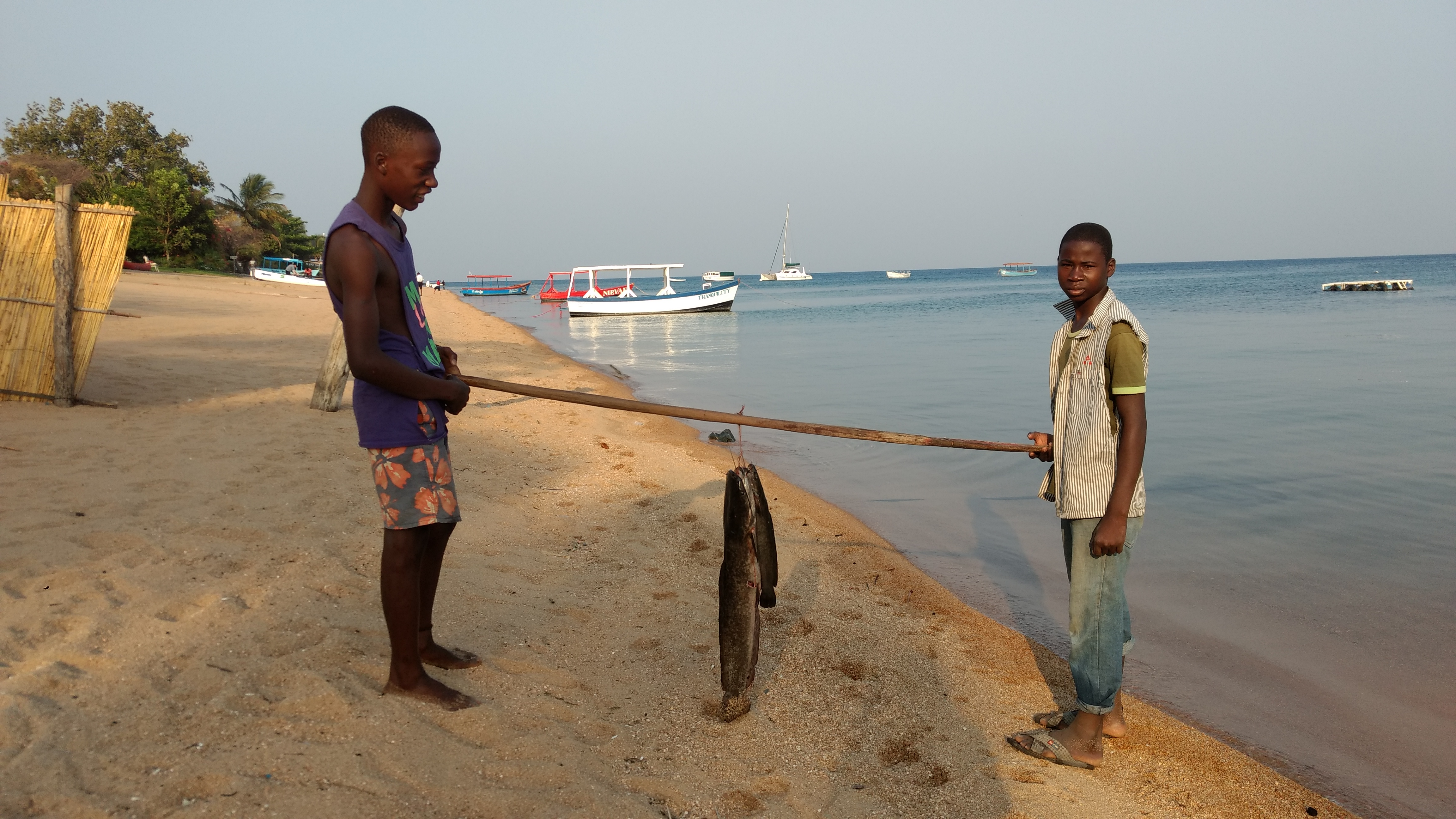 Lake Malawi This is an image of "African people at work" from Malawi